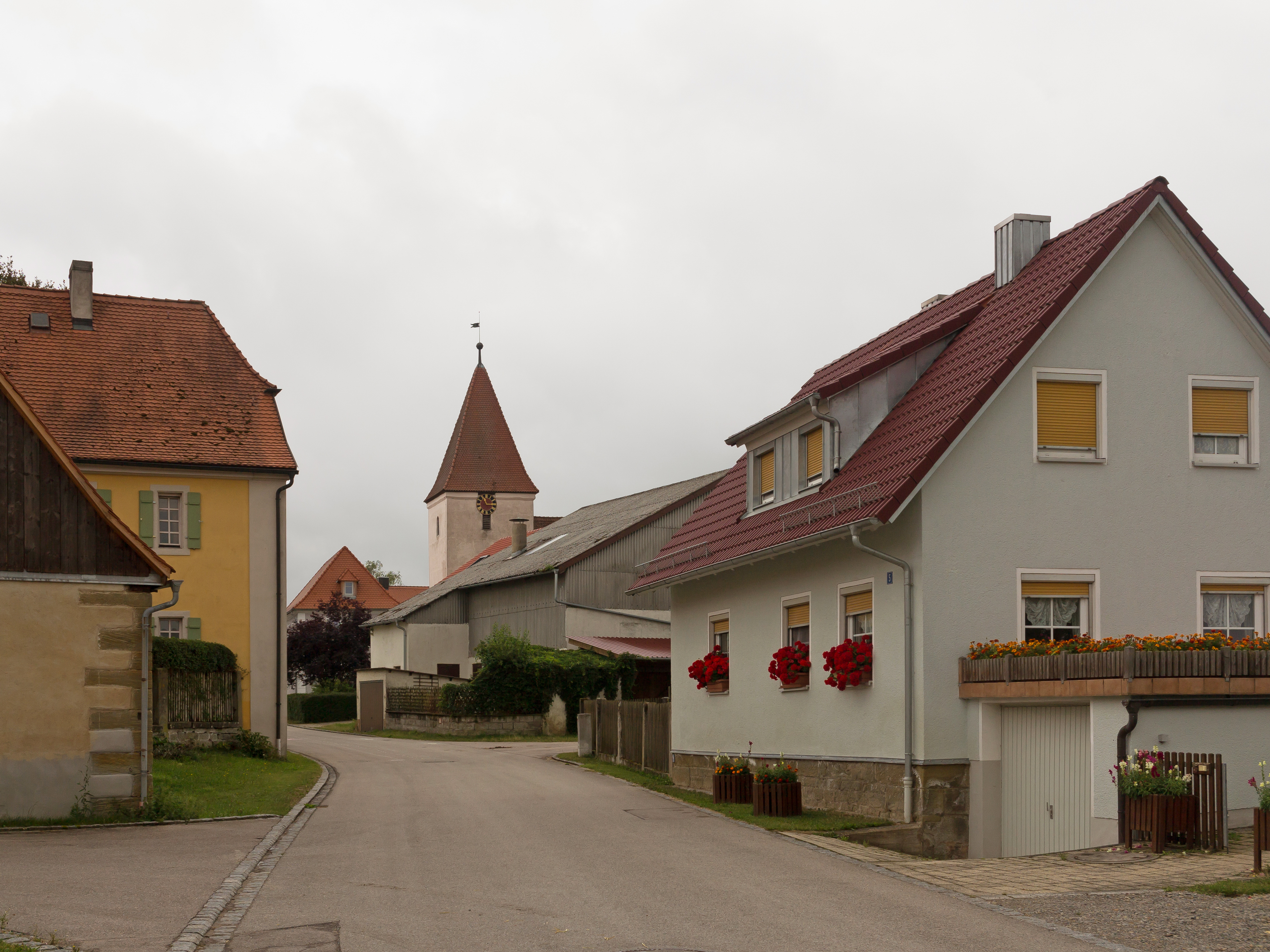 Mitteldachstetten, view to a street with churchtower (die evangelisch-lutherische Pfarrkirche)This is a photograph of an architectural monument.